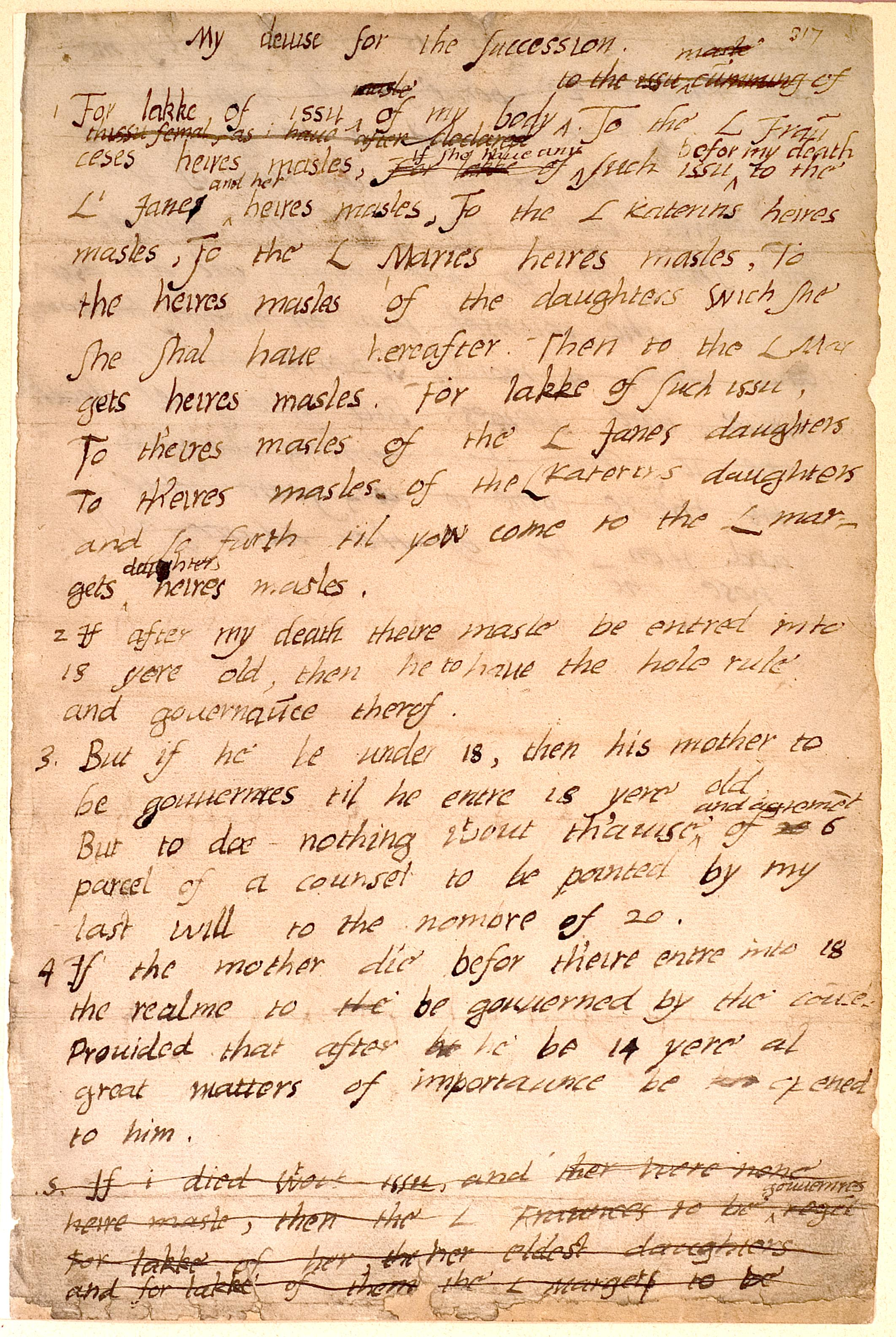 Edward VI's "devise for the succession", 1553, written in his own hand. (Inner Temple, Petyt MS 538, vol. 47 fo. 317.) In this document, Edward bypassed the claims to the throne of his half-sisters Mary and Elizabeth in favour of Lady Jane Dudley (née Grey). In the fourth line, Edward has changed "L Janes heires masles" to "L Jane and her heires masles".